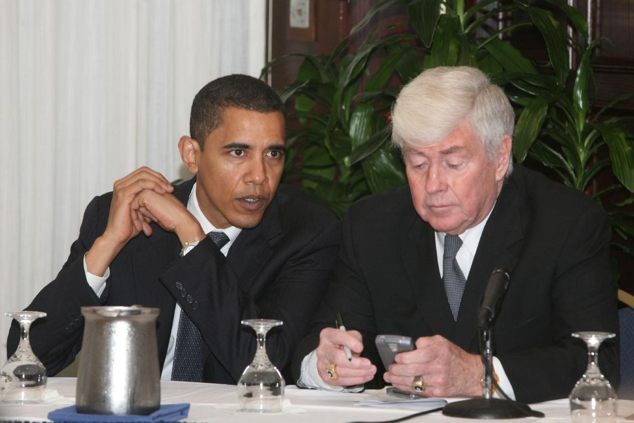 Jack Kemp and Barack Obama at the Public Internet Channel Launch at the National Press Club